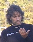 Picture of footballer Rob Maas, made and released by the webmaster of jan-wuytens.tk